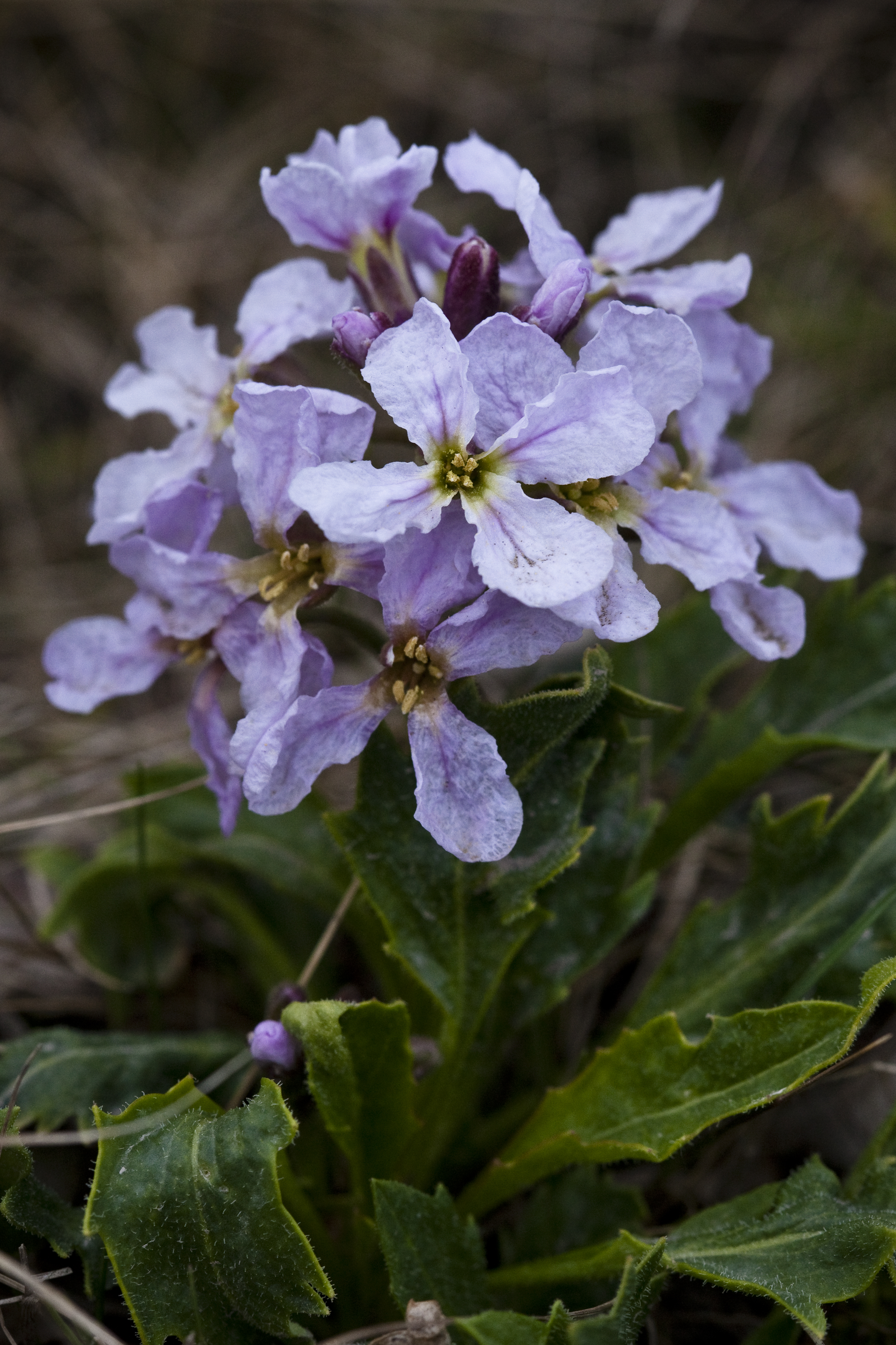 Parrya nudicaulis, Denali National Park and Preserve, AK, USA